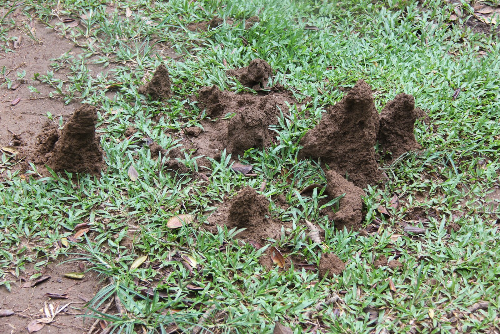 Small termit hills from Sri Lanka